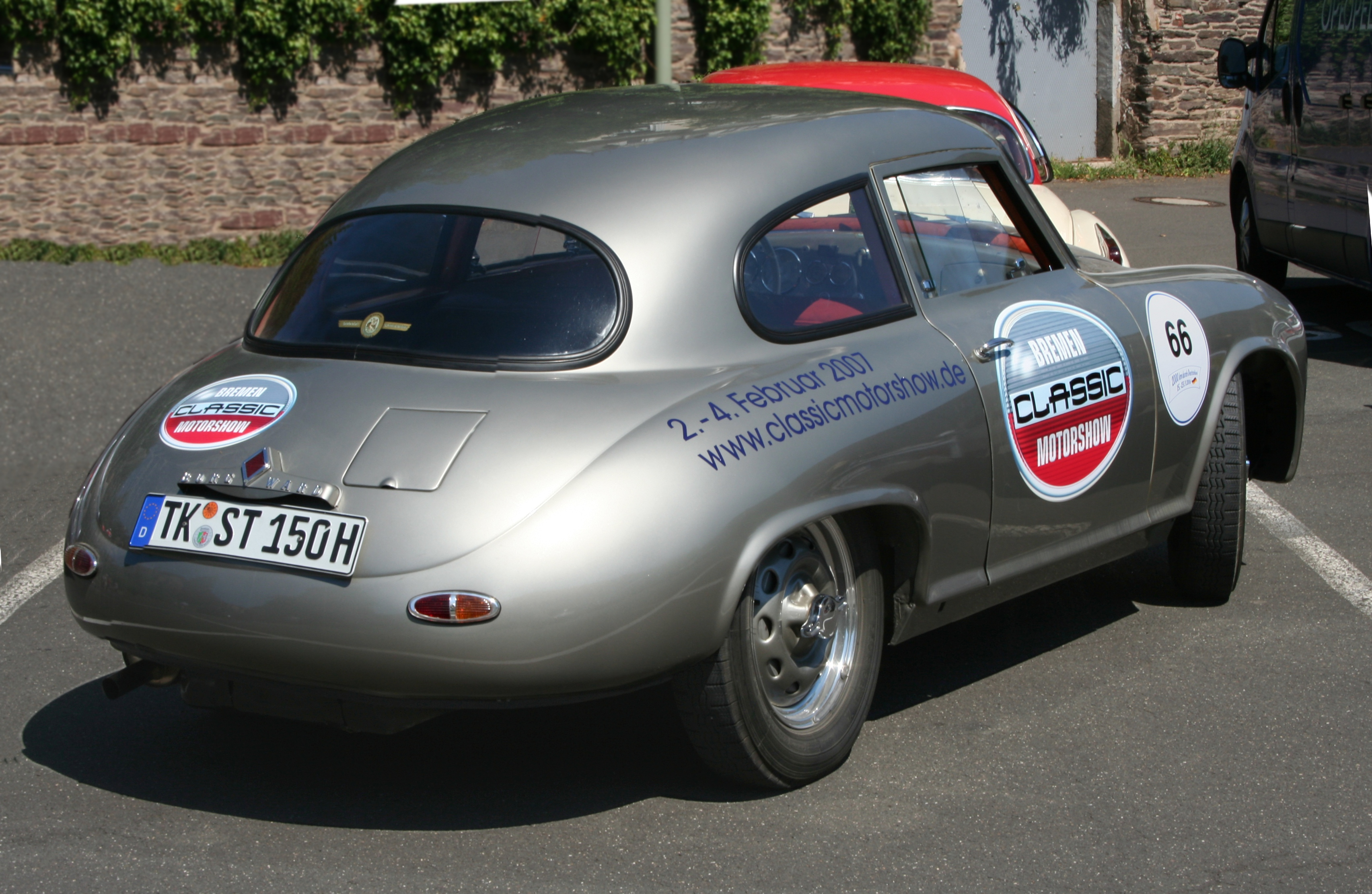 One of two prototypes of the Borgward Hansa 1500 Sportcoupé, built in 1954 and exhibited at the Geneva Motor Show. This car never entered serial production. The photo was taken at 2000 km durch Deutschland 2006.